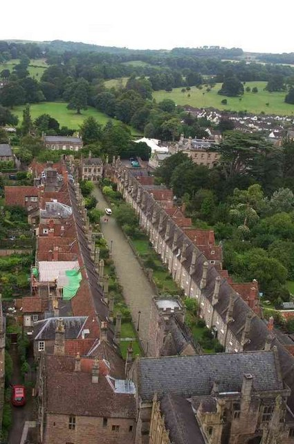 Vicars Close View of Vicars Close from the top of the Cathedral Main Tower